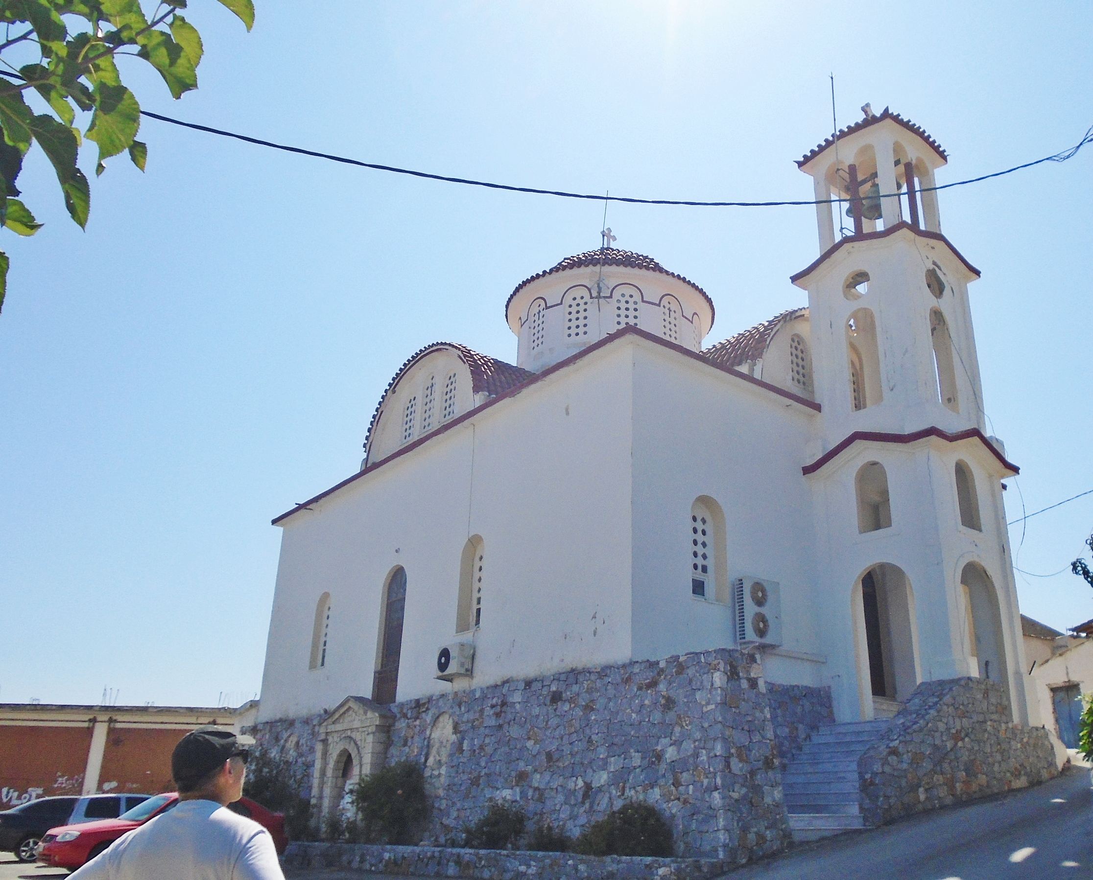 Zoodochos Pigi church (Church of the Life-giving Spring), Kondomari, Crete